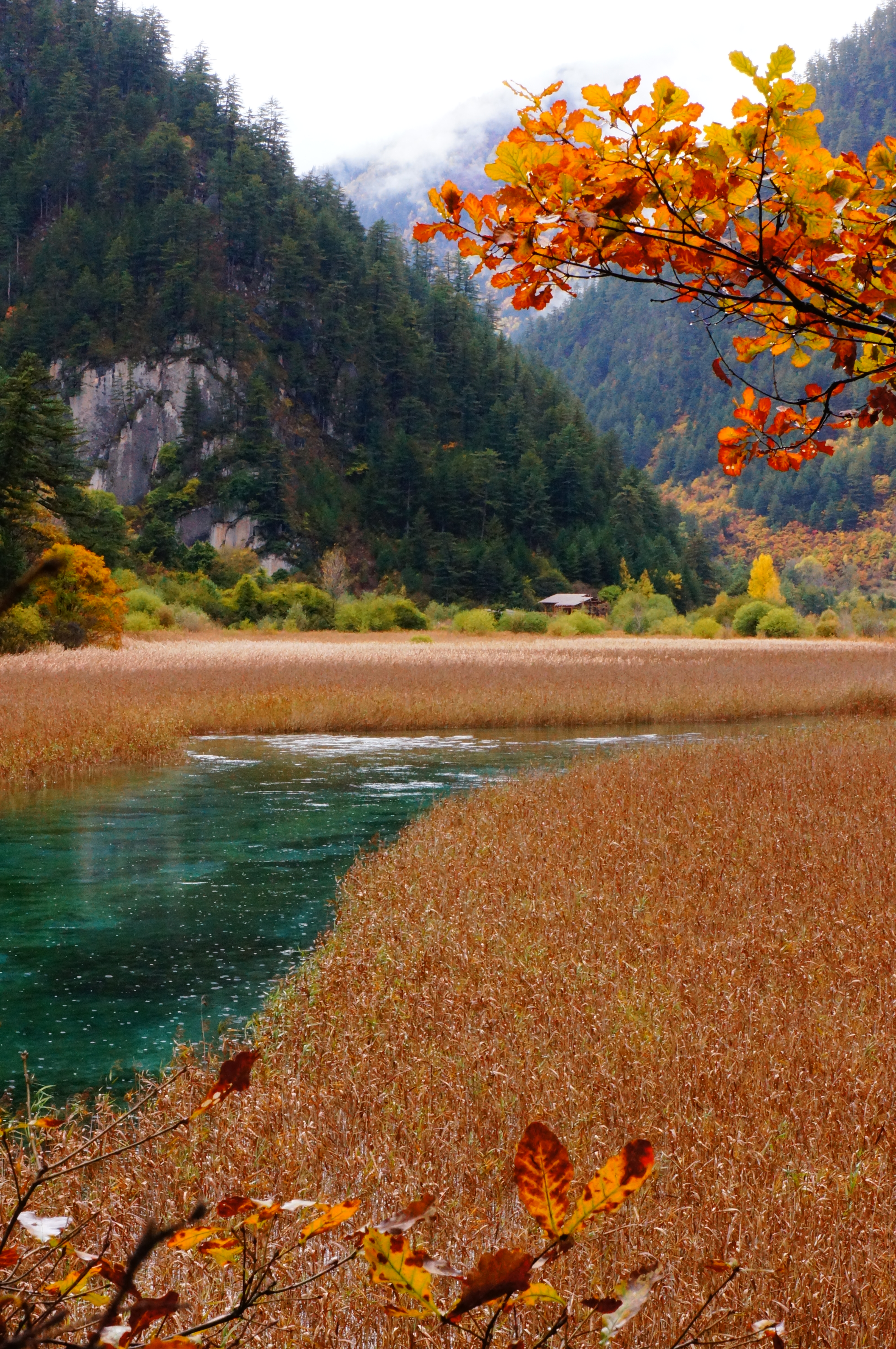 jiuzhaigou valley national park sichuan china 2011 autumn fall reed lake 芦苇海, Lúwěi Hǎi shuzheng valley 树正沟